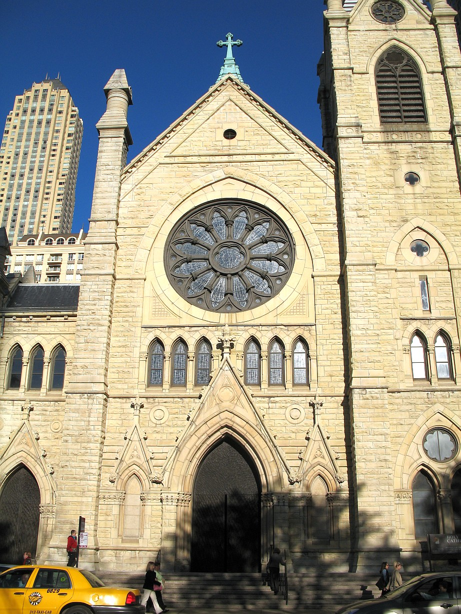 Catholic Holy Name cathedral in Chicago; front view